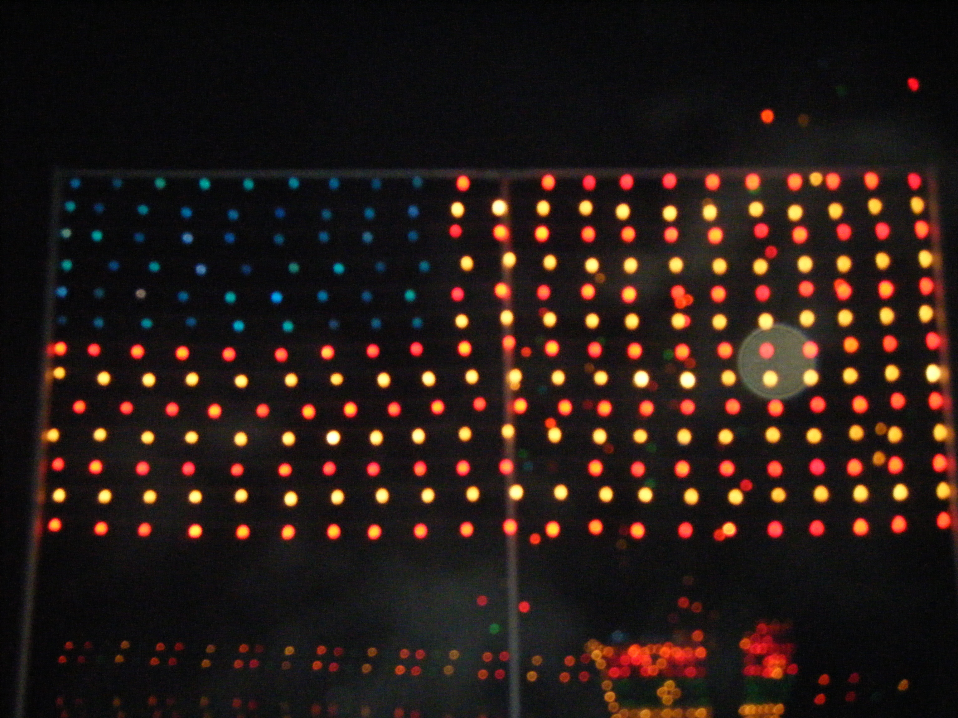 A view of an American flag light display Koziar's Christmas Village in Jefferson Township, Berks County, Pennsylvania.